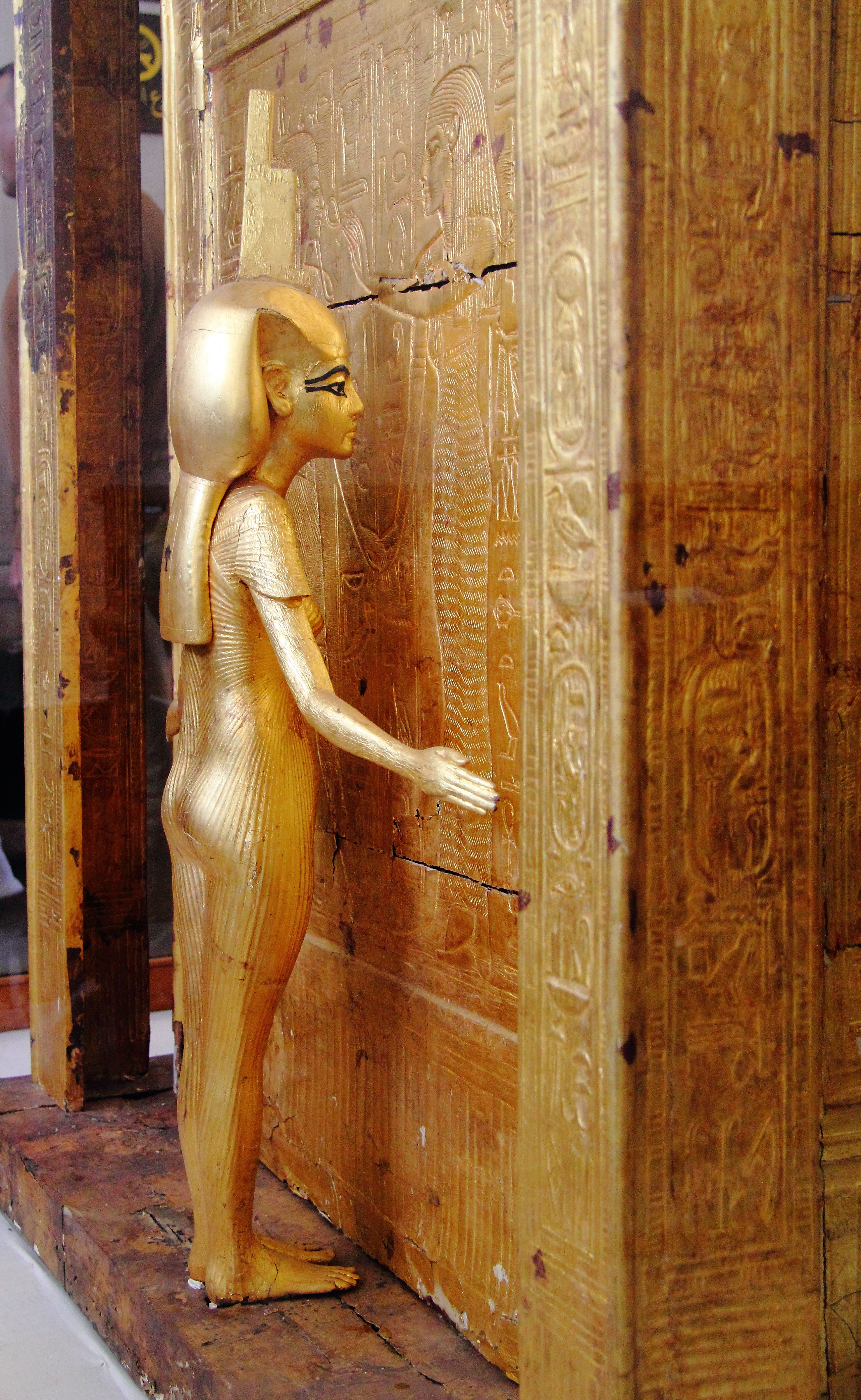 Egyptian Museum, Cairo: Material from the tomb treasure of king Tutankhamun, 18th dynasty, New Kingdom of Egypt